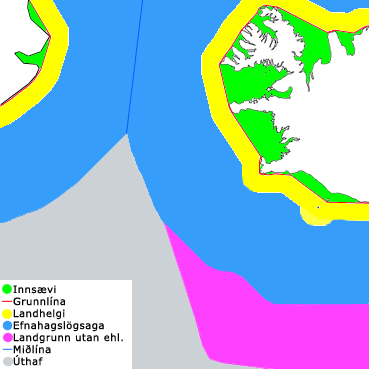 A map indicating the legal division of oceans made by Bjarki Sigursveinsson. The map is fictional and not proportionally correct. The legend is in Icelandic but feel free to contact me (preferably on my Icelandic talk page) for a blank version or if you have any other questions.